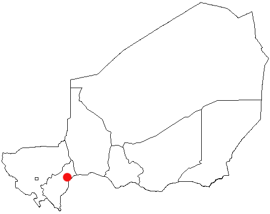 Dogondoutchi, Niger Location Map; created with the GIMP. Made by User:Acntx.